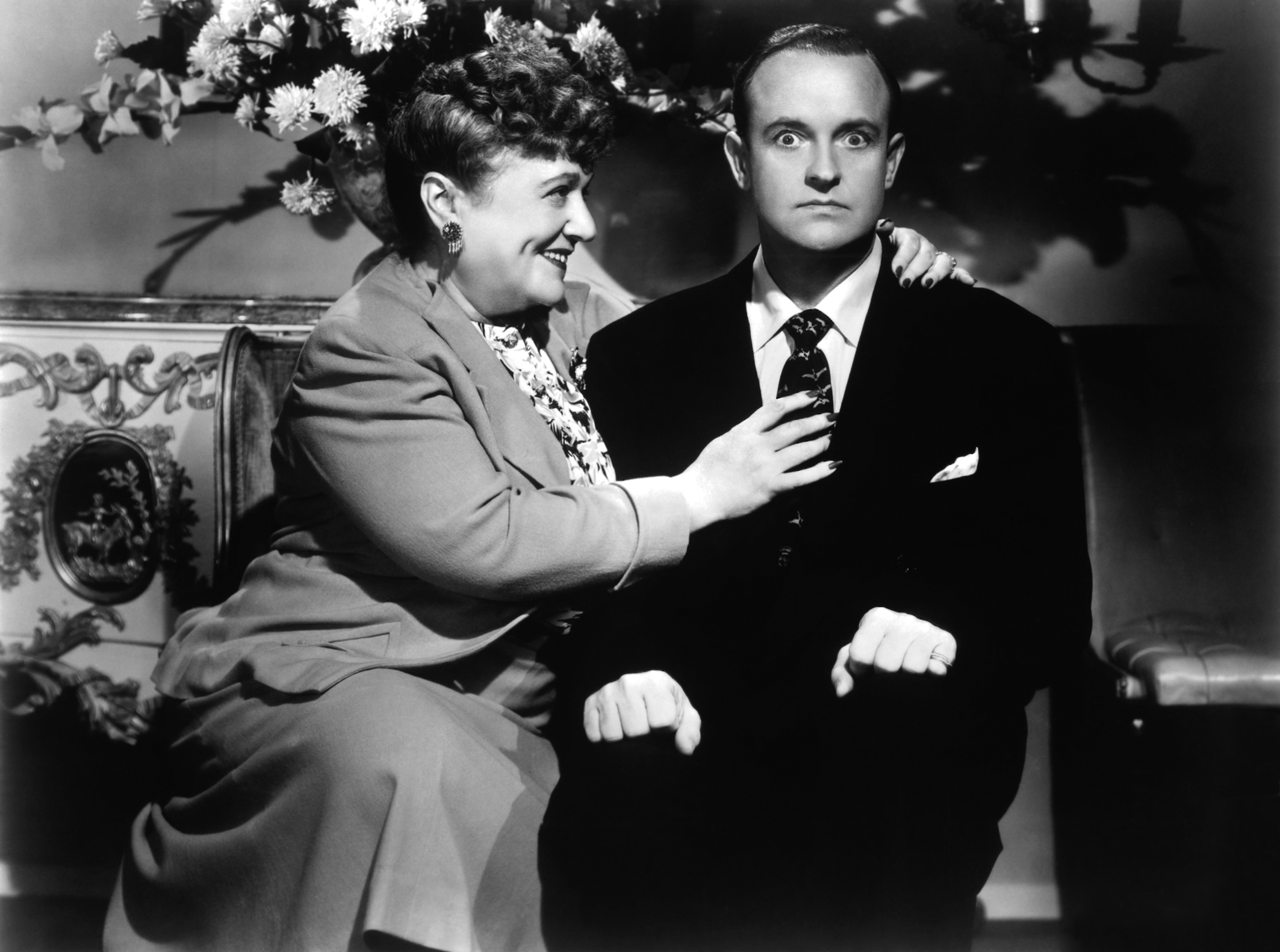 Florence Bates & Grady Sutton in My Dear Secretary - cropped screenshot